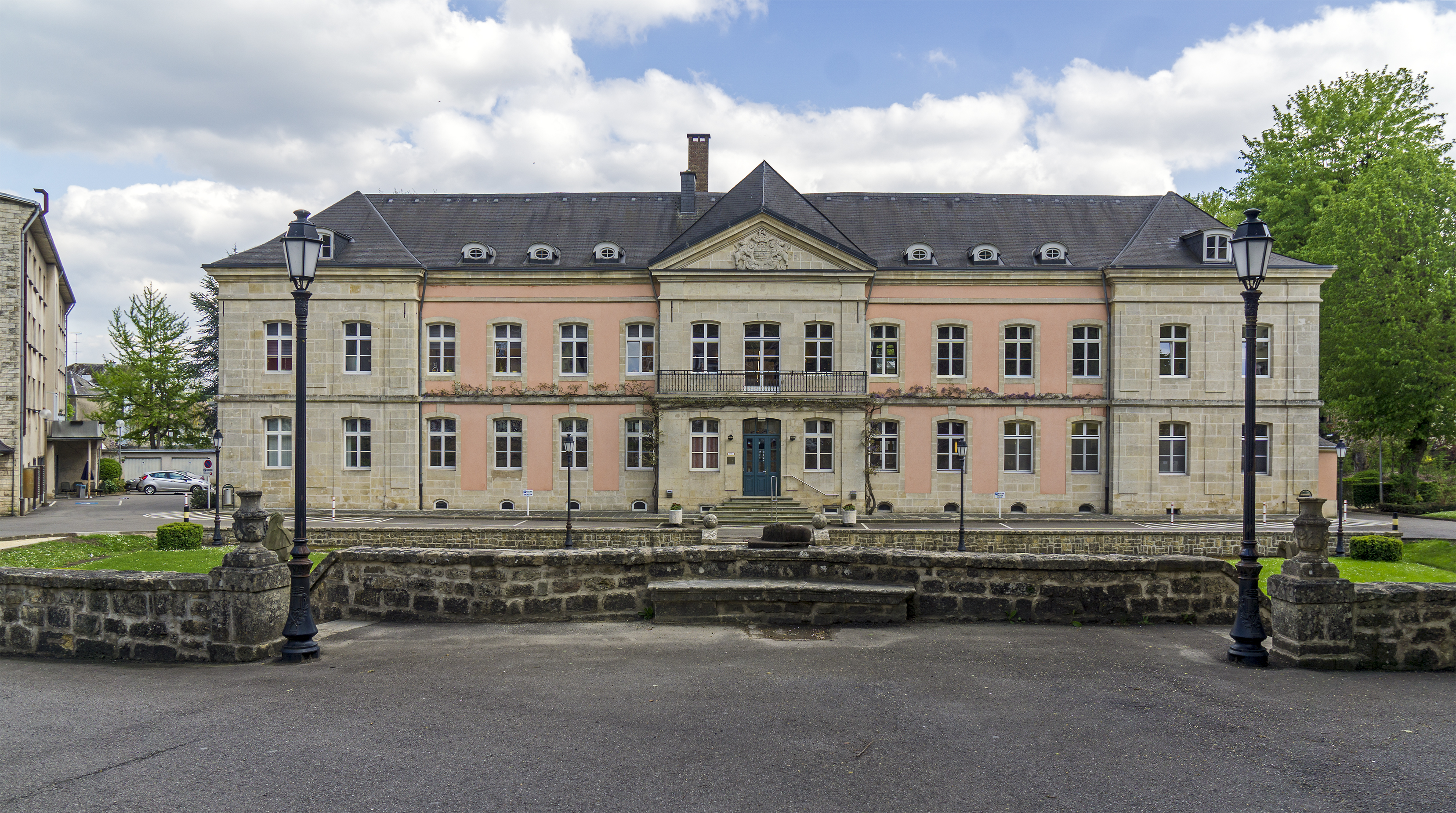 Nursing home of Servior in Differdange, a former abbey